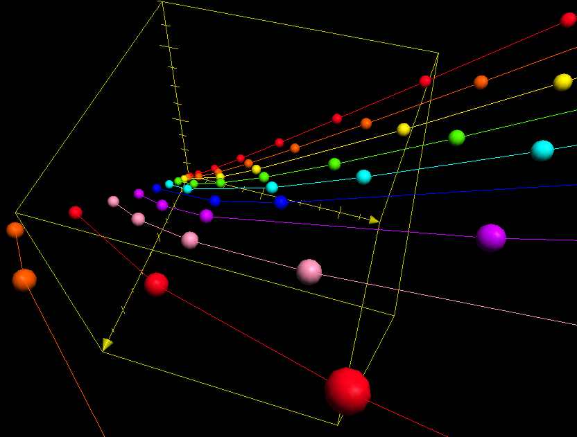 A plot of the first 47 PPTs.